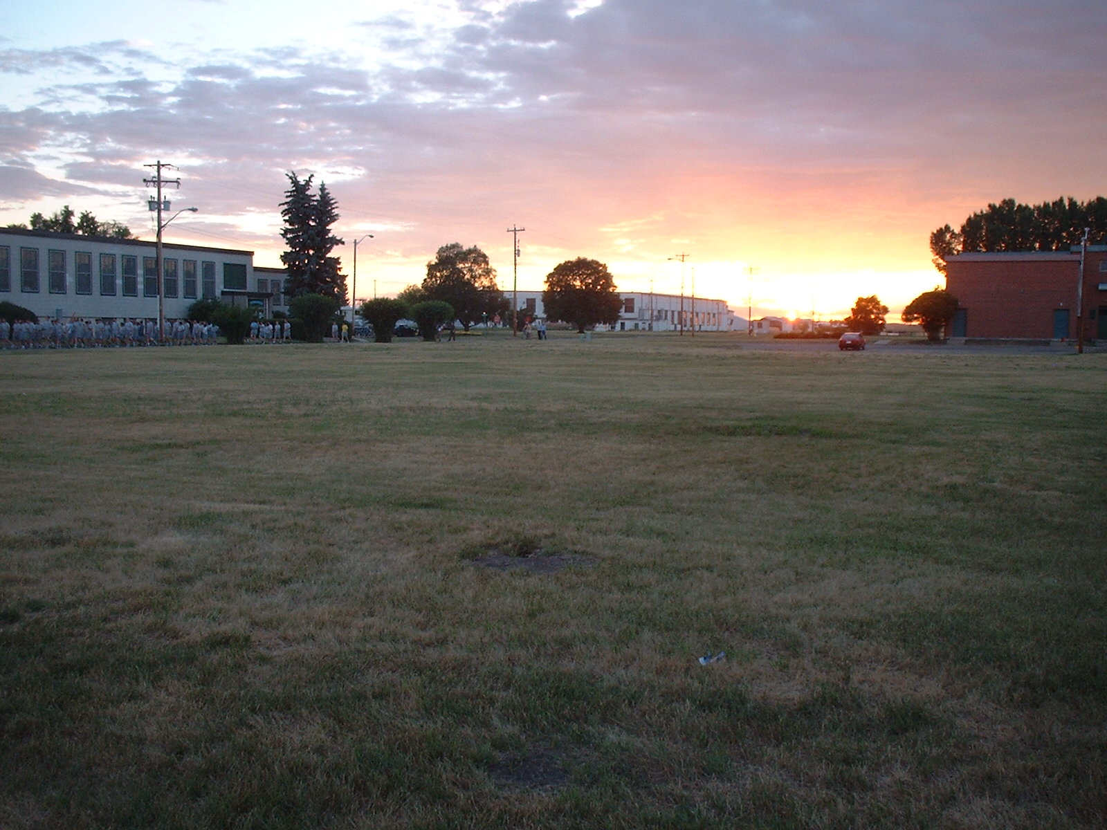 Sunset over Penhold, Alberta. Air cadets returning from a dance.